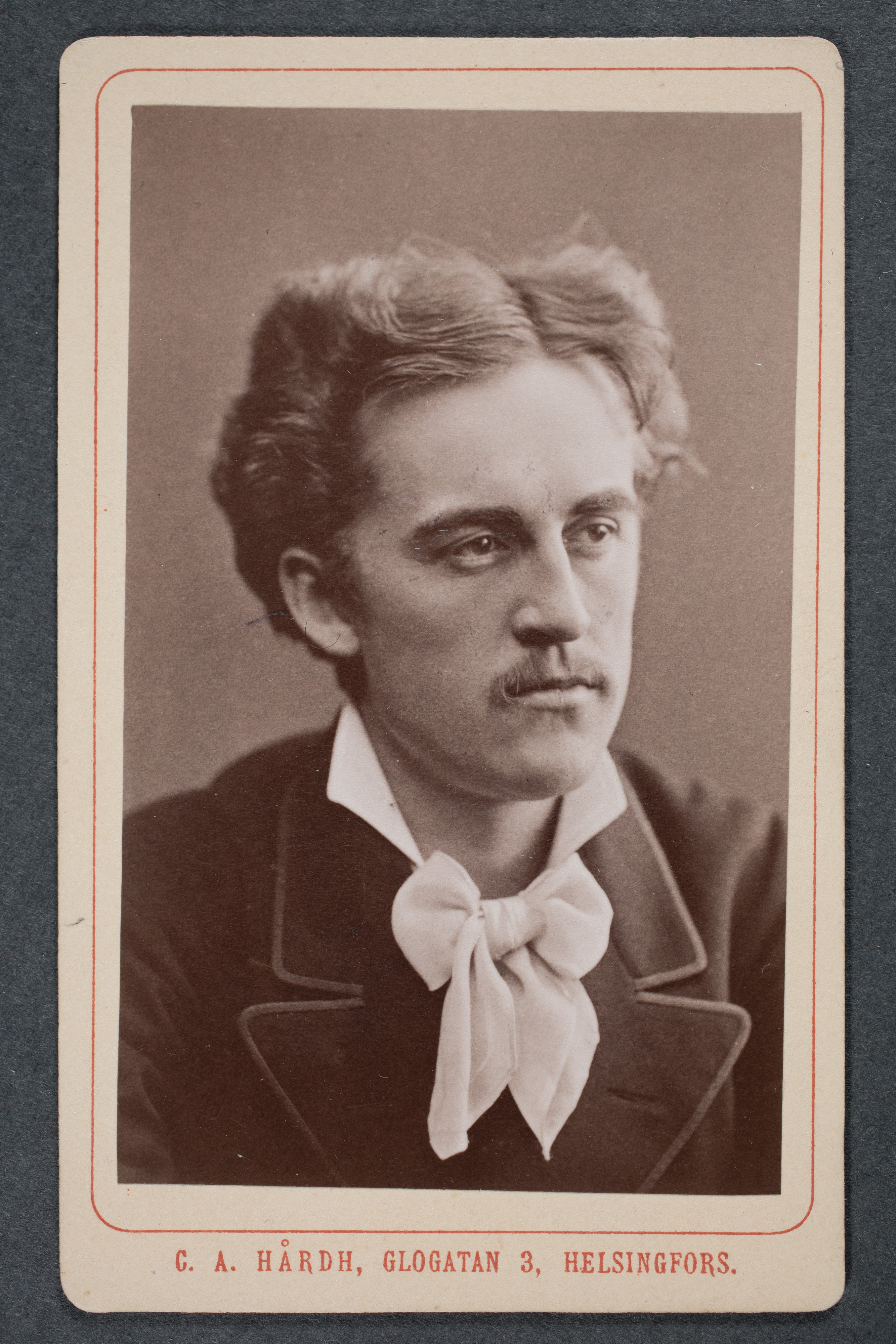 The Finnish opera singer Bruno Holm in 1870